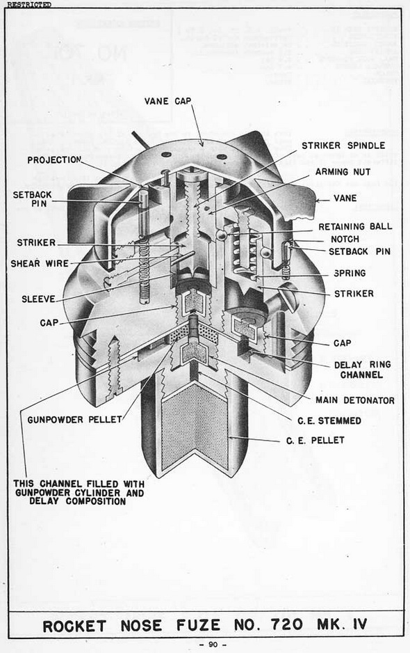 Rocket nose fuze no. 720 mk. IV